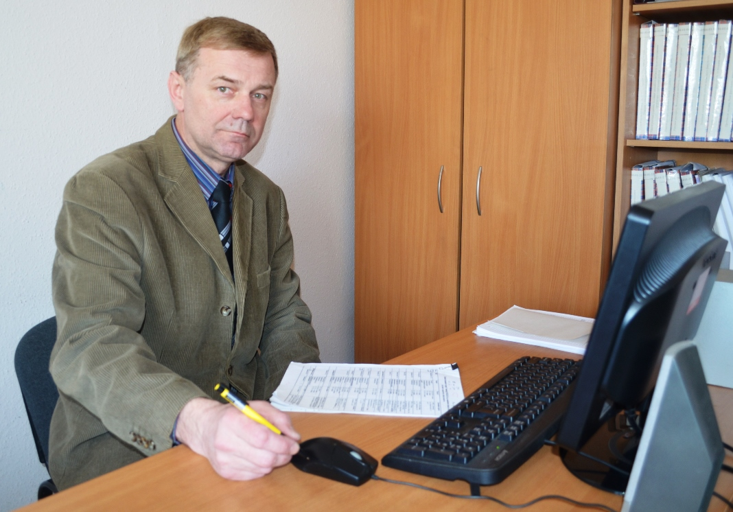 DEAN OF KMU of UAFM